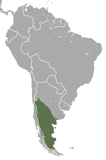 Pichi (Zaedyus pichiy) range